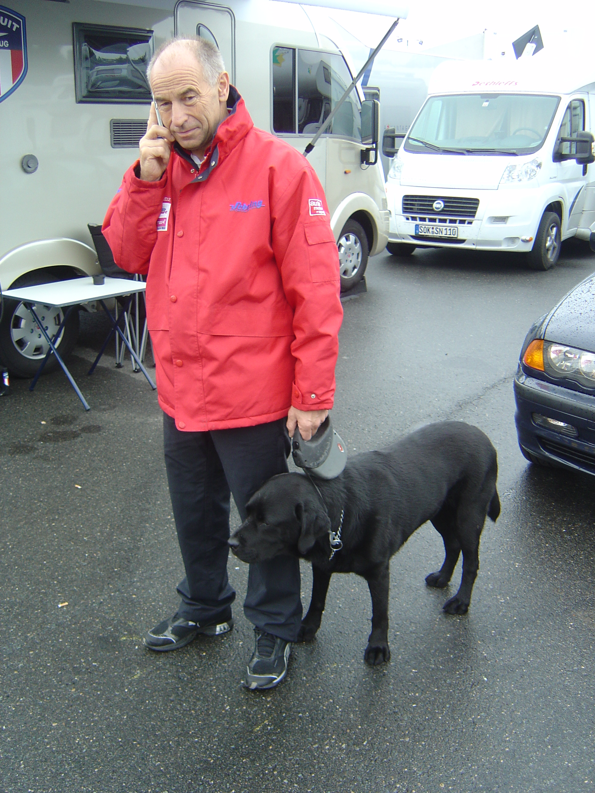 Peter Mücke: the photo was taken during 2009's ADAC GT Masters race weekend at Hockenheim